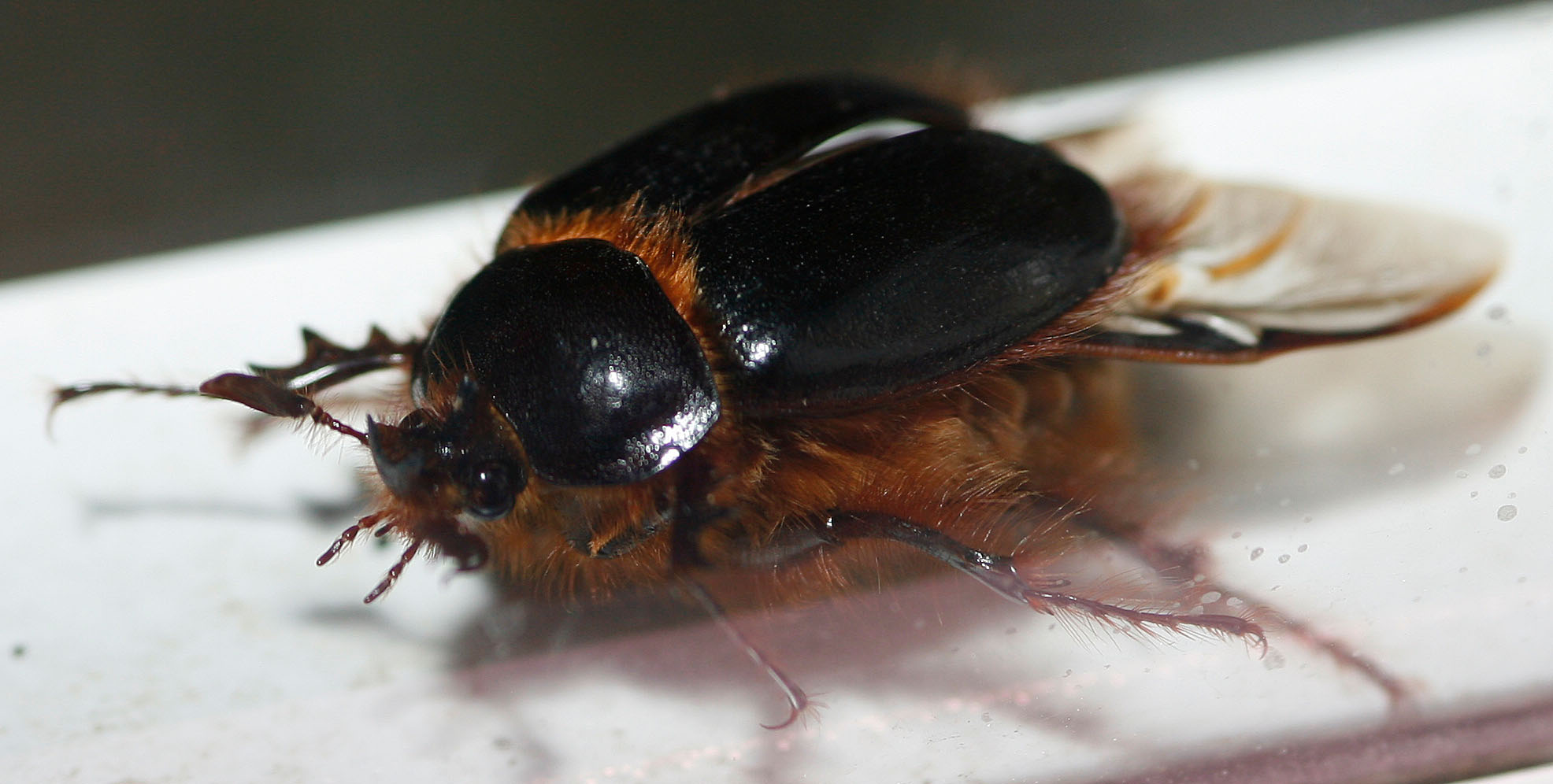 image of a male Pleocoma species